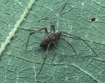 male Episinus affinis from Okinawa.